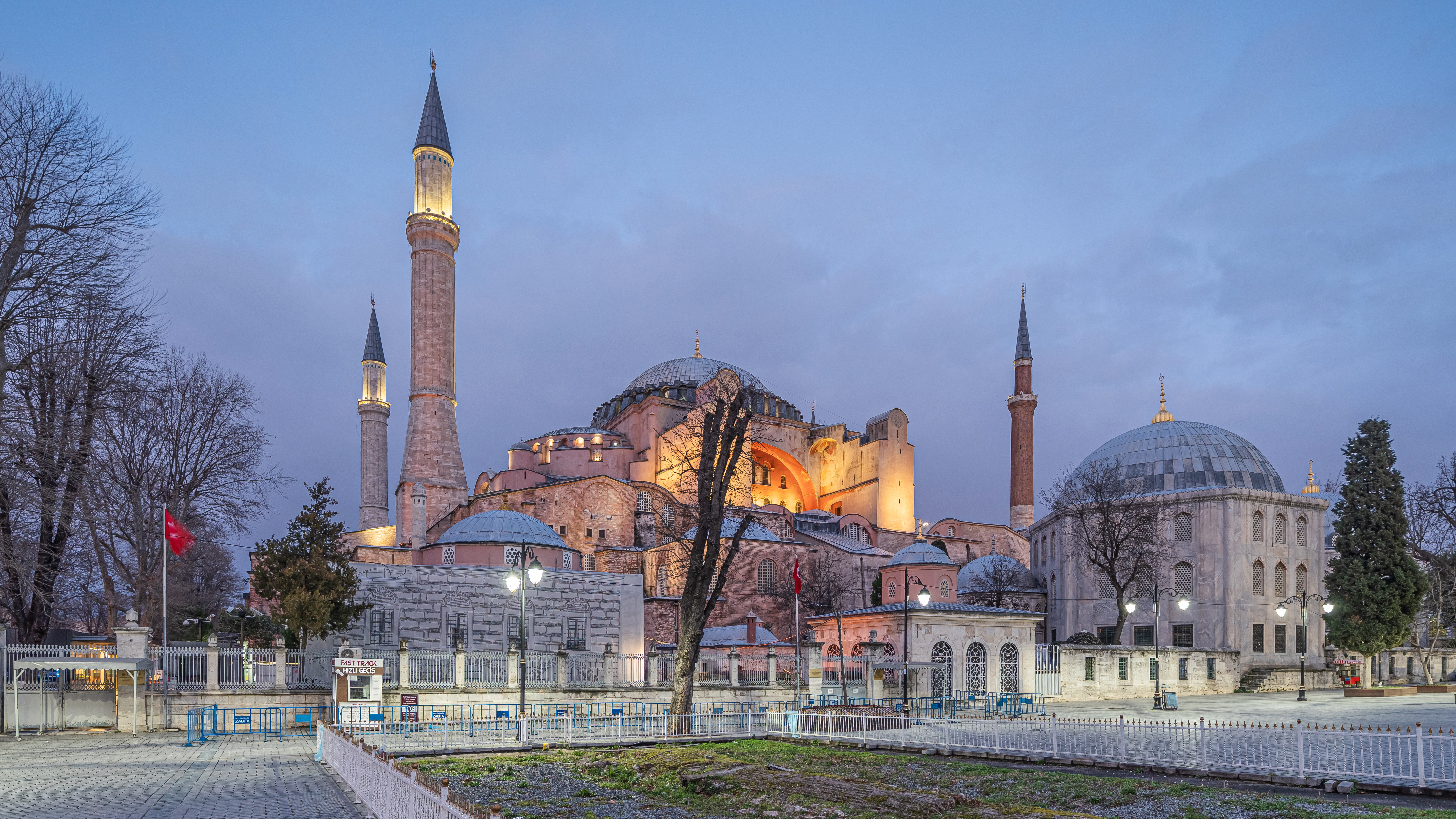 Hagia Sophia (photo taken during Blue hour) in Istanbul, Turkey